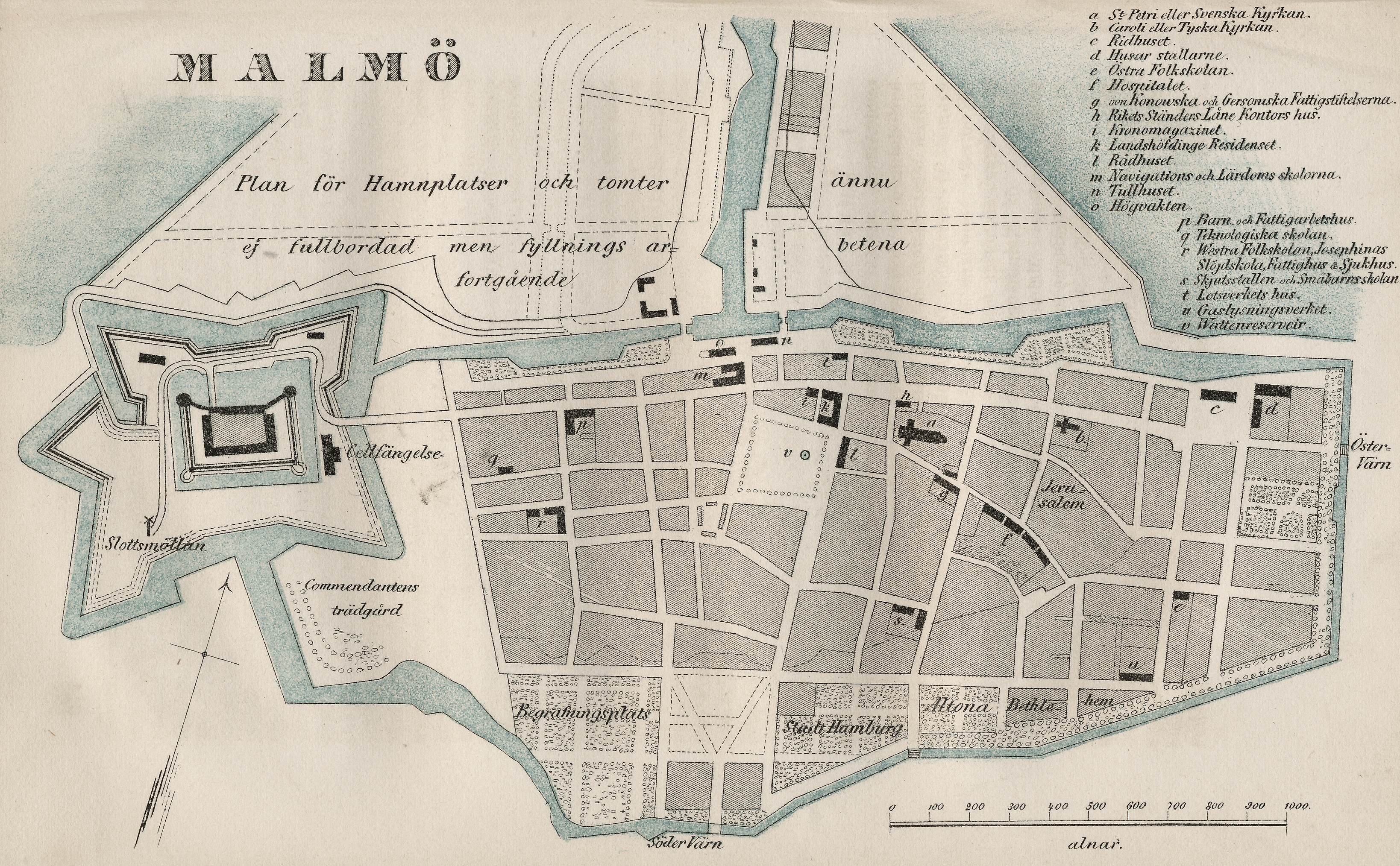 Map from about 1850 of the town of Malmo in Sweden.